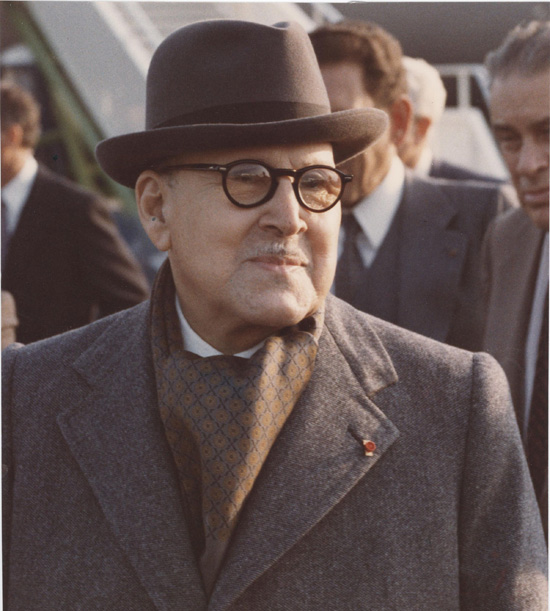 Catalog #: BIOD00033 Last Name: Dassault First Name: Marcel Notes: In Hall of Fame Repository: San Diego Air and Space Museum Archive San Diego Air & Space Museum Native nameThe San Diego Air & Space MuseumLocationSan DiegoCoordinates32° 43′ 34.68″ N, 117° 09′ 14.4″ W EstablishedOctober 12, 1961Web page control : Q3308955 VIAF: 146227252 LCCN: n2006164789 WorldCat institution QS:P195,Q3308955